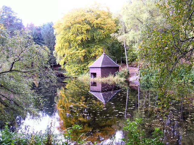 Reflections at Loch Dunmore. This picture was taken in Faskally Woods near to Pitlochry it is a picture of the Boathouse at Loch Dunmore reflected in the loch.